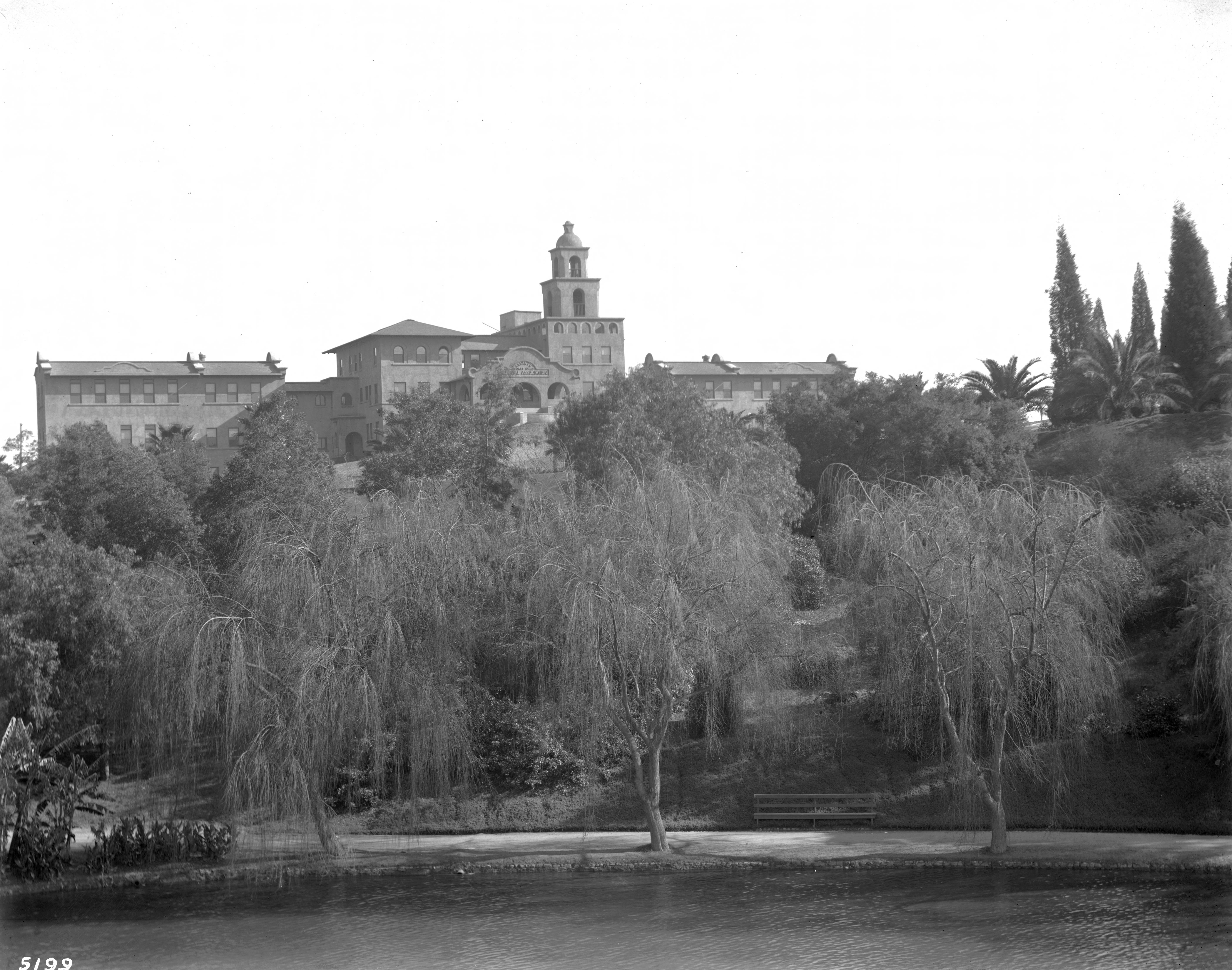 Exterior view of Santa Fe Railroad Hospital, opposite Hollenbeck Park, in Boyle Heights, Los Angeles, 1905 Photograph of the exterior view of Santa Fe Railroad Hospital, opposite Hollenbeck Park, in Boyle Heights, Los Angeles, 1905. The hospital is situated on a hill in the distance overlooking a lake and some dense trees. The Moorish-style building has multicurved parapets, arched windows, semi-circular doorways, and a dome tower. A sign above the main entrance reads: "Santa Fe, [...]oas lines, [Hosp]ital Association". Call number: CHS-5199 Filename: CHS-5199 Coverage date: 1905 Part of collection: California Historical Society Collection, 1860-1960 Format: glass plate negatives Type: images Geographic subject (city or populated place): Boyle Heights; Los Angeles Repository name: USC Libraries Special Collections Accession number: 5199 Microfiche number: 1-63- Archival file: chs_Volume30/CHS-5199.tiff Part of subcollection: Title Insurance and Trust, and C.C. Pierce Photography Collection, 1860-1960 Repository address: Doheny Memorial Library, Los Angeles, CA 90089-0189 Geographic subject (country): USA Format (aacr2): 1 photograph : glass photonegative, b&w ; 21 x 26 cm.; 1 photoprints : b&w ; 8 x 10 in. Rights: Digitally reproduced by the USC Digital Library; From the California Historical Society Collection at the University of Southern California Subject (adlf): medical facilities Project: USC Repository Contributing entity: California Historical Society Date created: 1905 Publisher (of the digital version): University of Southern California. Libraries Format (aat): photographs Geographic subject (state): California Subject (file heading): Los Angeles -- Architecture -- Hospitals (1 of 2) Legacy record ID: chs-m1798; USC-1-1-1-1850 Access conditions: Send requests to address or e-mail given. Phone (213) 821-2366; fax (213) 740-2343. Geographic subject (county): Los Angeles Subject (lcsh): Hospitals Subject: Santa Fe Railroad Hospital